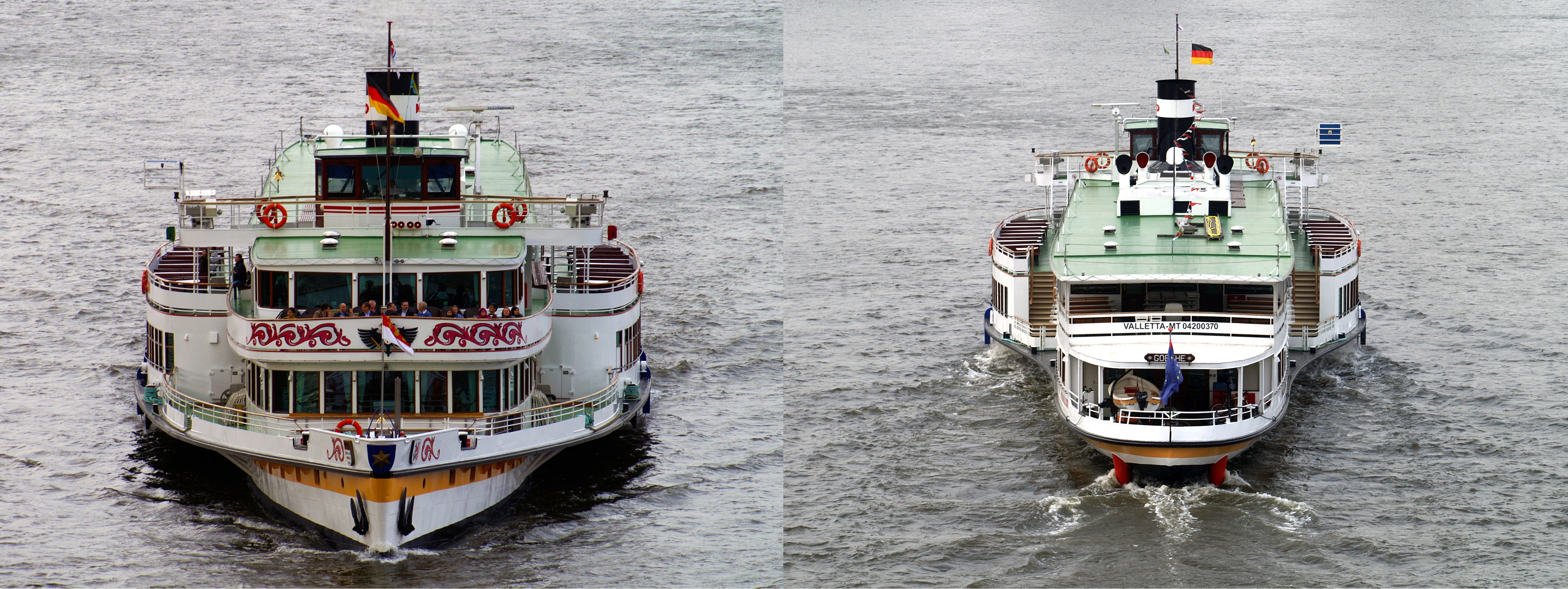 Front and back view of the paddle steamer Goethe.